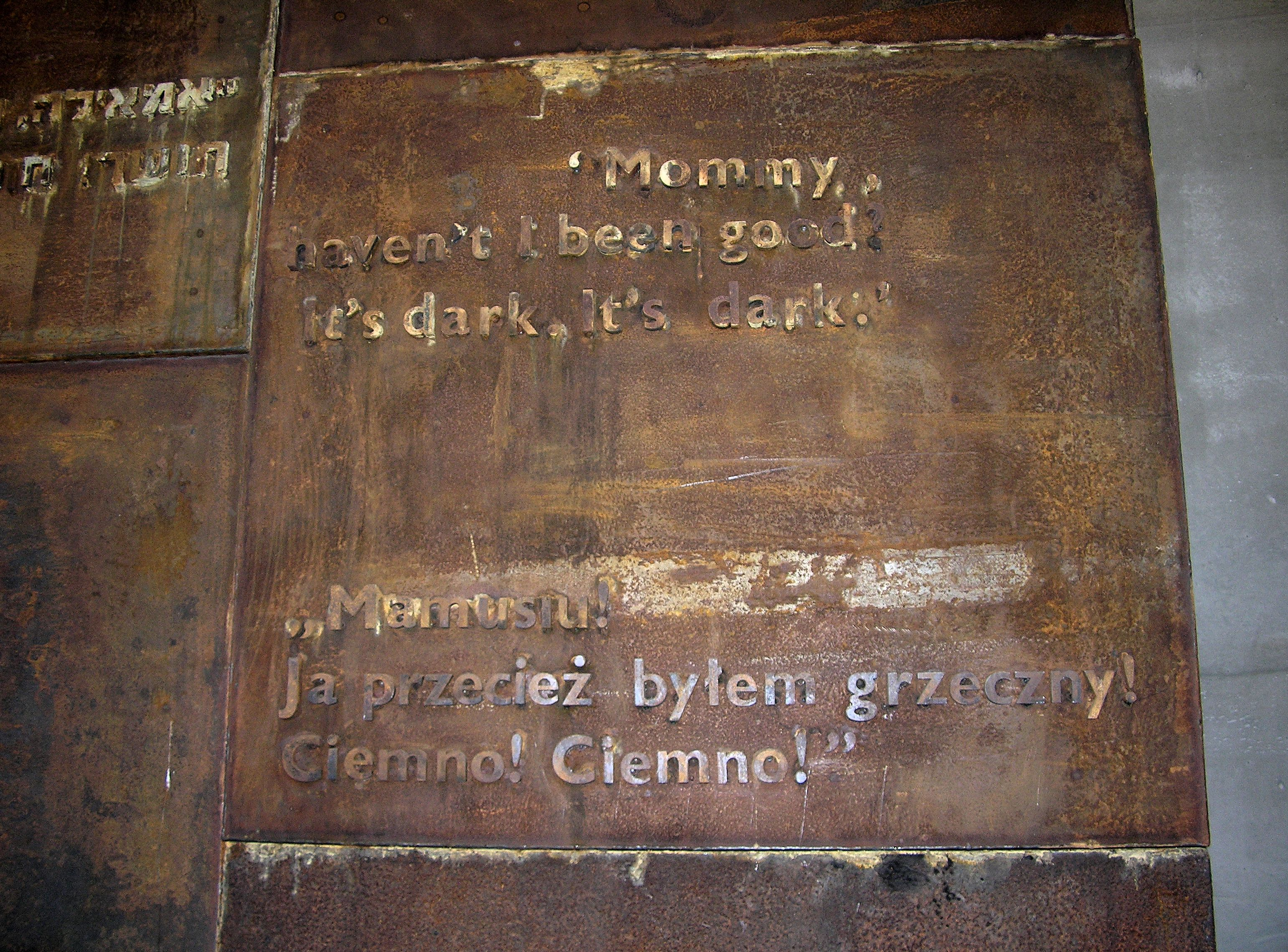 Mausoleum at the former Belżec death camp